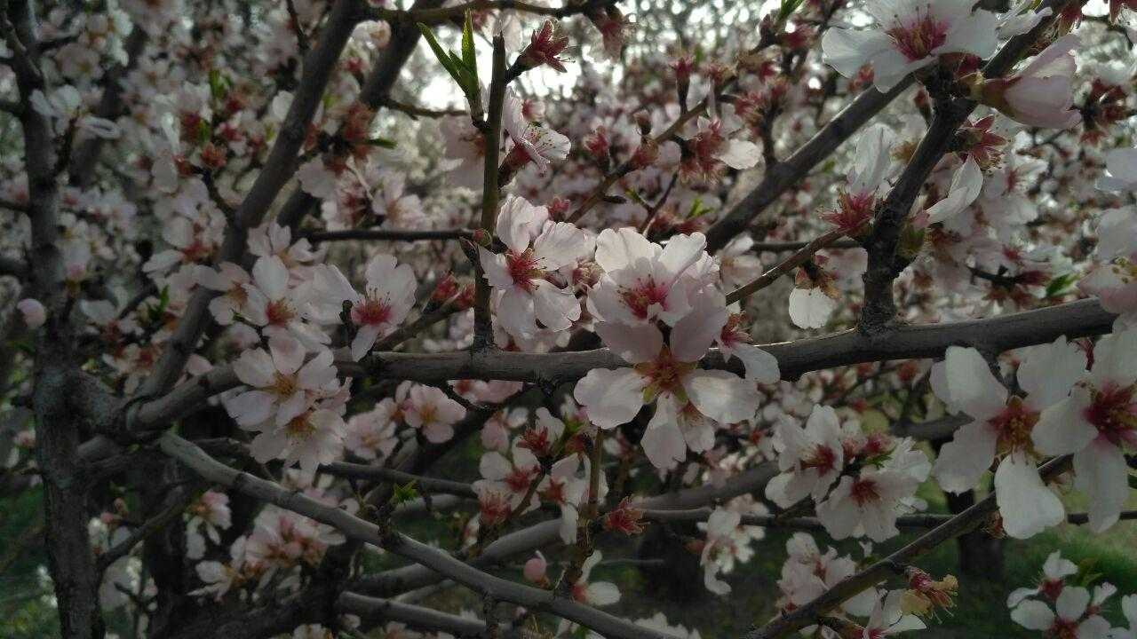 the nature in Aghbolagh